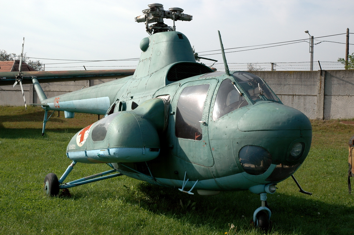 Mil Mi-1M (built in Poland, 1963, displayed at Museum of Hungarian Aviation, Szolnok)